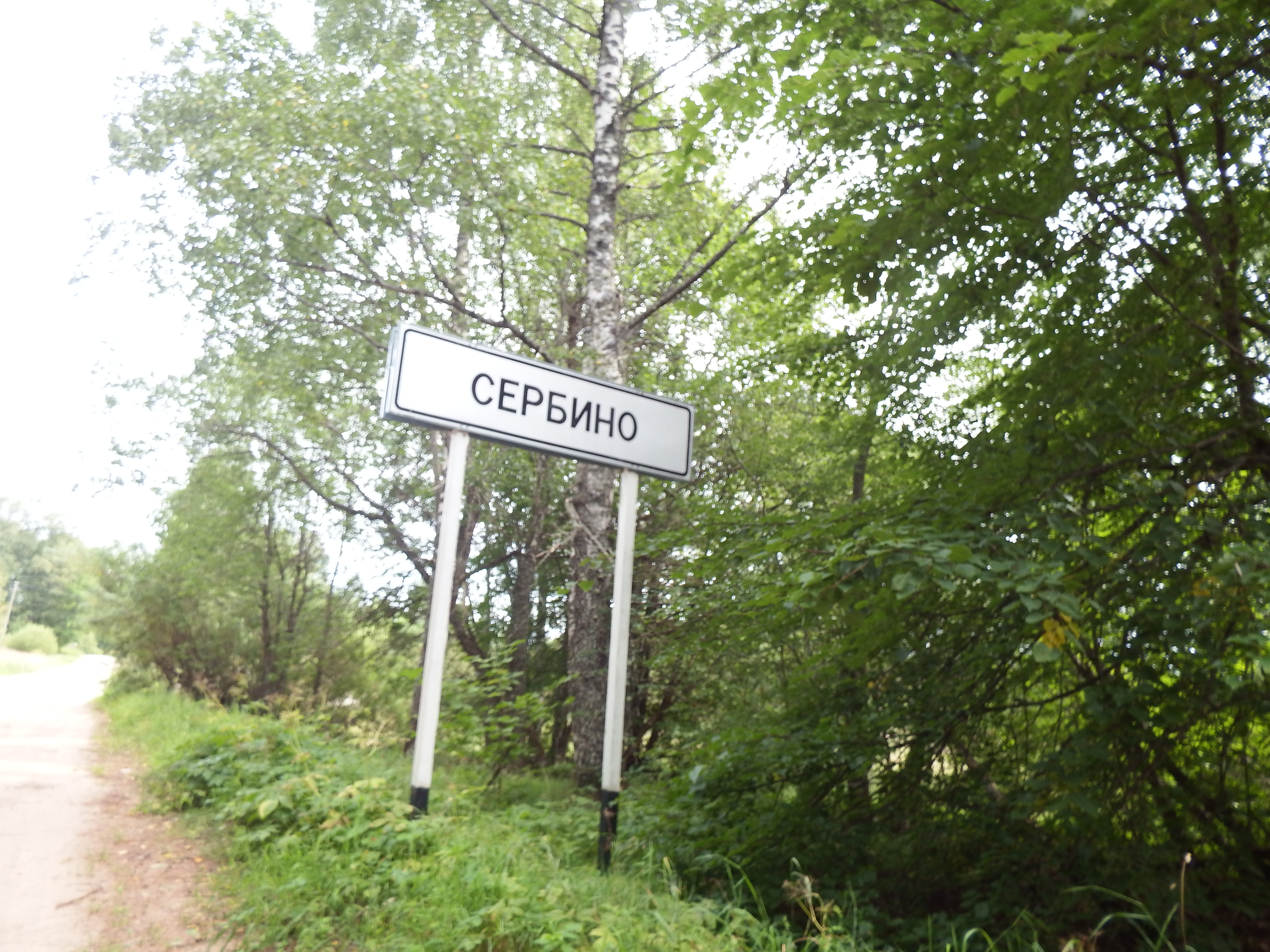 Serbino, Pliusski district, Pskov region